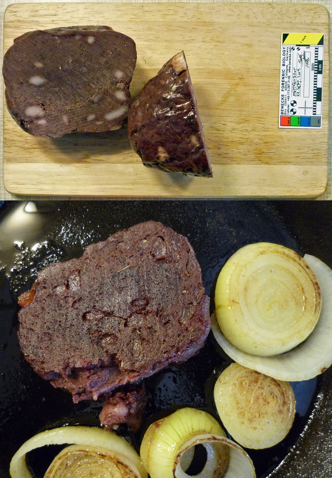 German Blood Sausage "Möppkenbrot", a food speciality in Westphalia and parts of the Ruhr Region (Western Germany), bought in Bochum, Germany in Sept. 2008 by Tina Baumjohann for Mark Benecke. Mixture of blood, pieces of fat and flour. Top: raw; lump freshly cut open. Bottom: As a typical dish (in a frying pan; with onions).